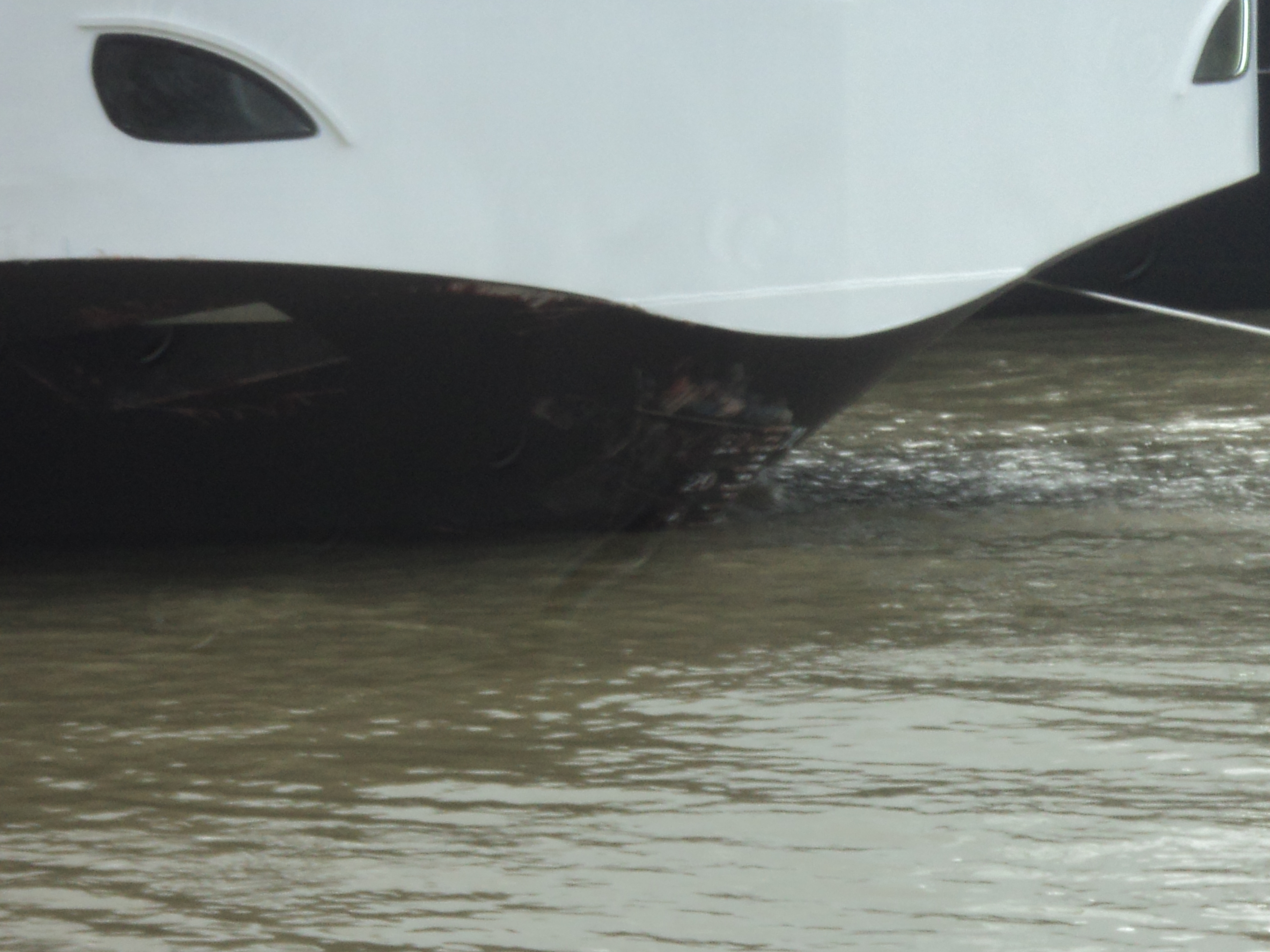 Ink traces on the prow of the MV Viking Sigyn, after the collison with the Hableany.